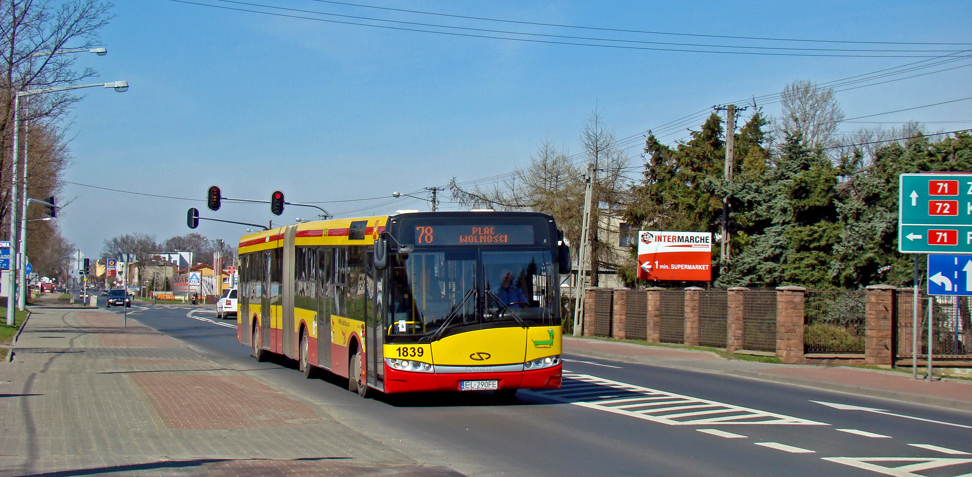 Solaris Urbino 18 (#1839, reg. EL 290FE) owned by MPK Łódź operator in Aleksandrow Łódzki, Poland. Built 2008.